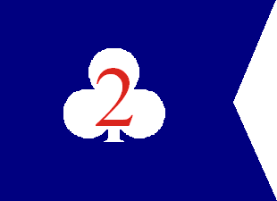 Union Army, II Corps - Army of the Potomac, HQ Badge